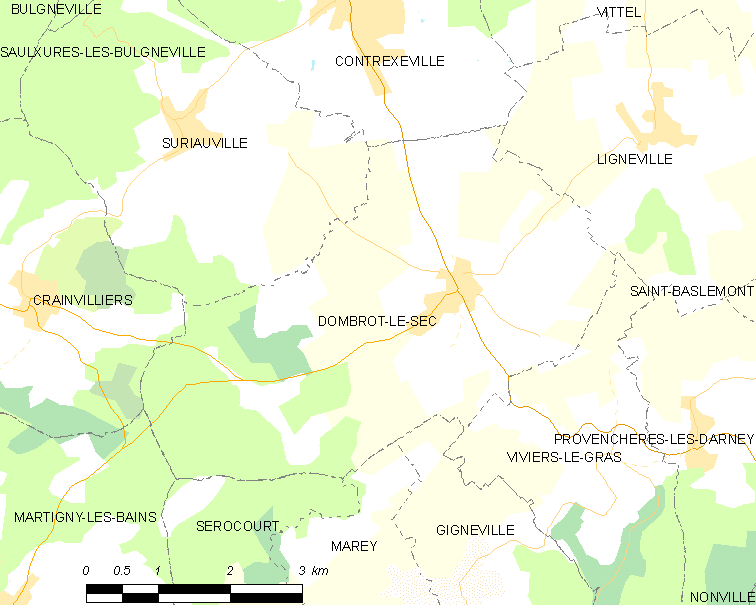 Map of French municipality Dombrot-le-Sec